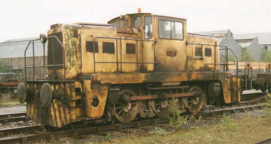 Yorkshire Engine Co 'Janus' type locomotive (builder's number 2787 of 1961) at Shelton Steelworks - Named 'Atlas'. Although out of use and in poor condition when photographed, this locomotive was very close to original condition, retaining the original front handrails with headlights and lacking any form of train brakes. 1997 Photographer - A.M.Hurrell Camera - Minolta X700 (35mm film) Modified - Scanned from print. File size and definition changed using Adobe Photoshop 5.0LE